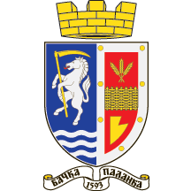 Srednji grb Bačke Palanke